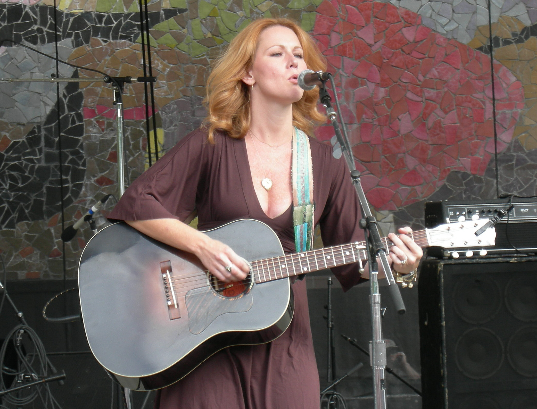 Allison Moorer performs at Bumbershoot, a music and arts festival held every Labor Day at Seattle Center, Seattle, Washington. This image has been through a bit of sharpening.